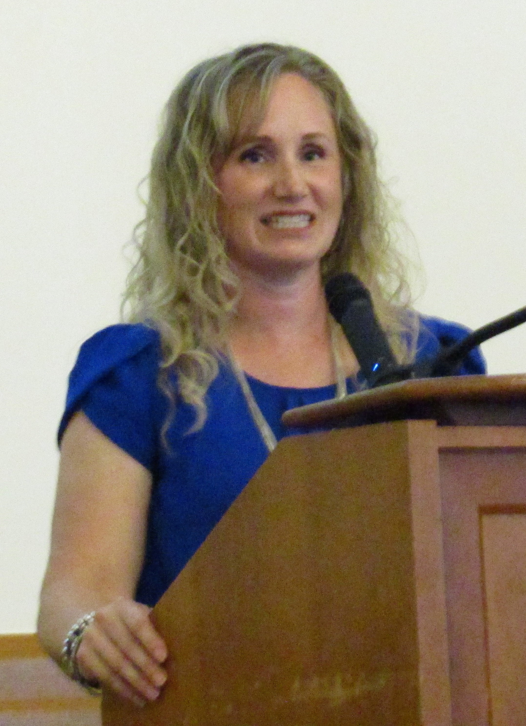 Josi S. Kilpack speaking at the Provo City Library.